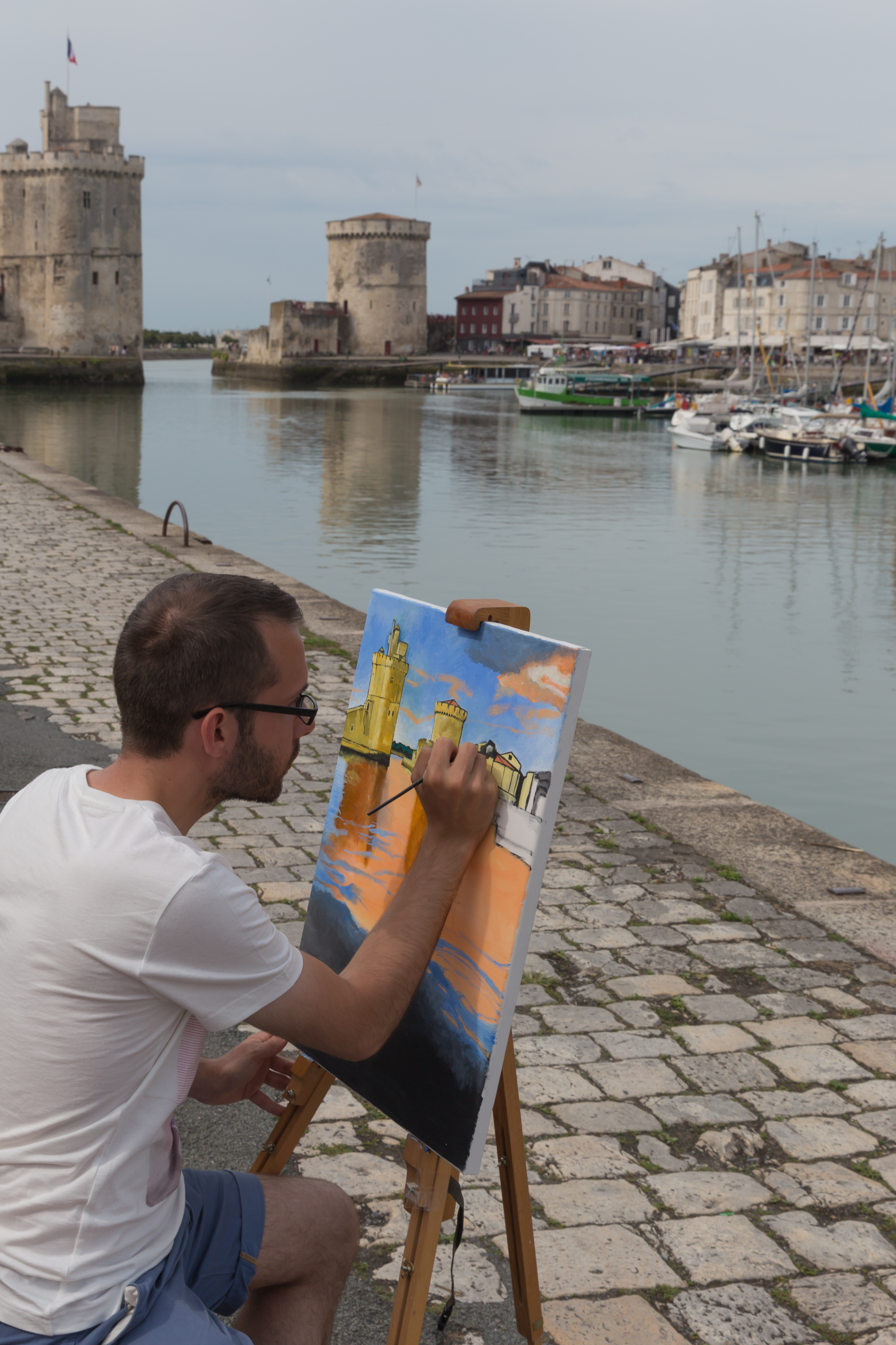 Painter in La Rochelle, France.